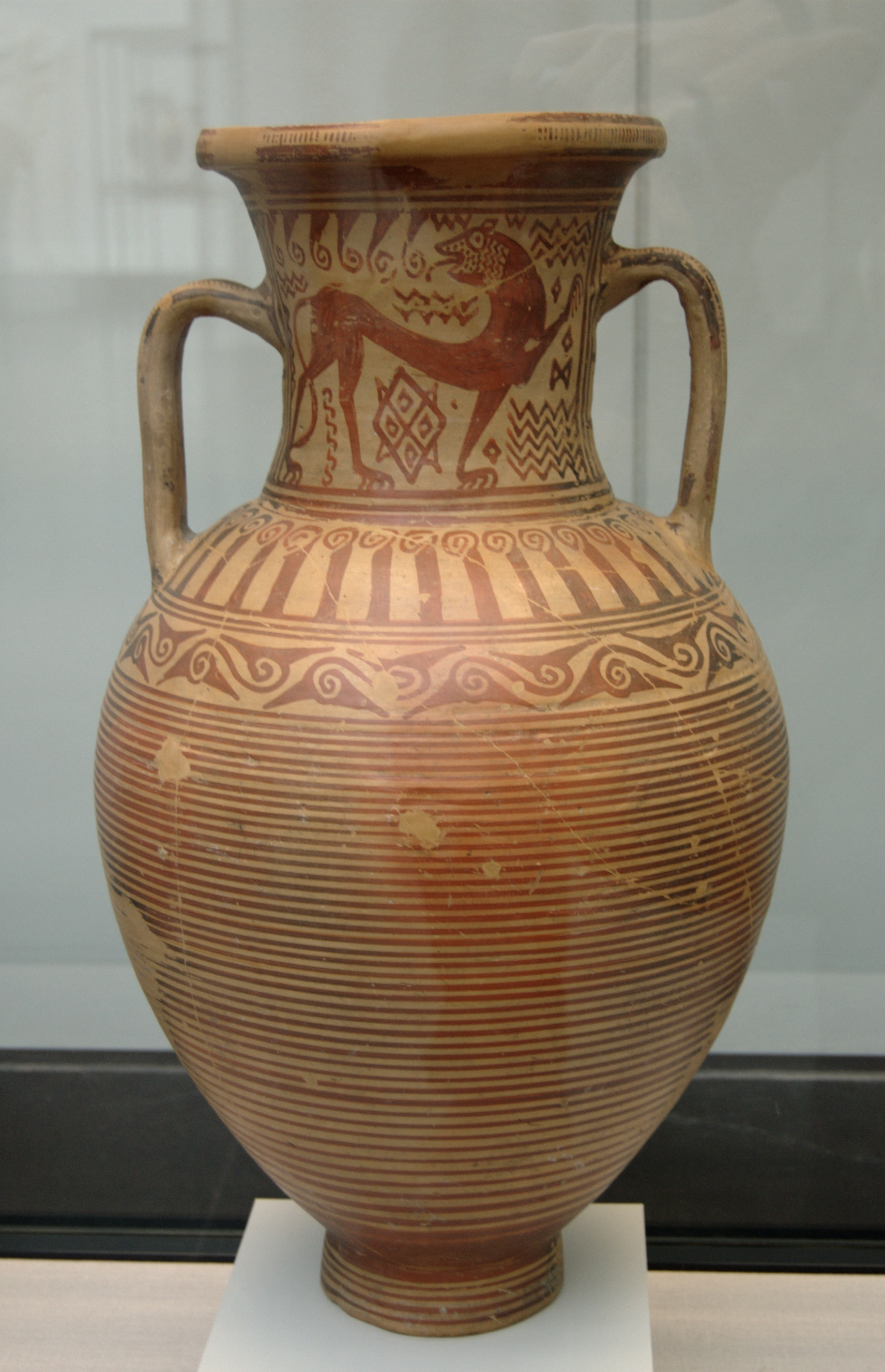 Attic amphora, ca. 700 BC. Orientalizing style